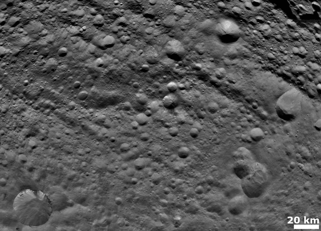 An image of old, heavily cratered terrain on Vesta taken by Dawn on August 6, 2011. It has a resolution of about 260 meters per pixel.